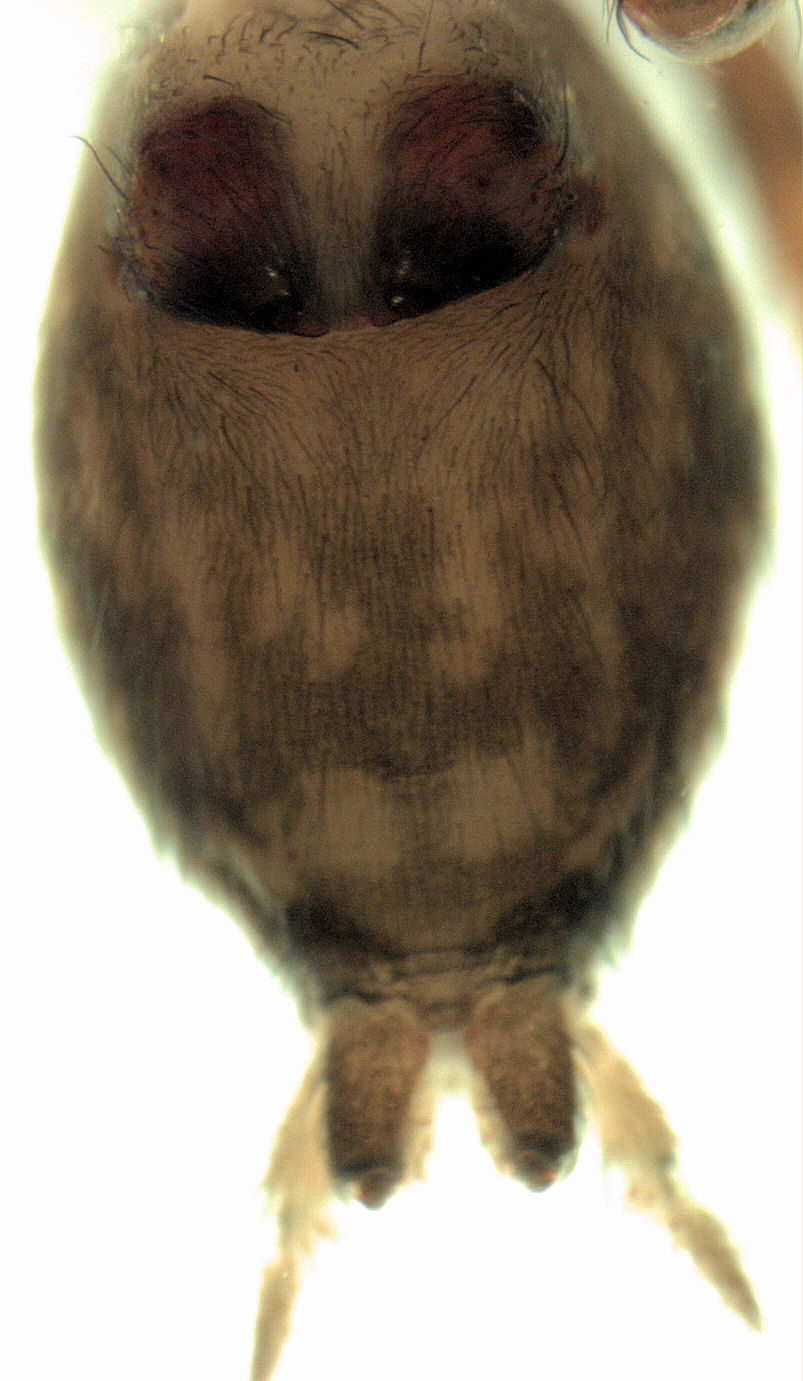 Adult female Aorangia sp. (ventral view of abdomen).New Zealand WO, Te Akau, pitfall trap, 22 Dec 2009-13 Jan 2010, C. H. Watts (Contact Energy Waikato wind farm, H block, turbine H008, pitfall trap B)